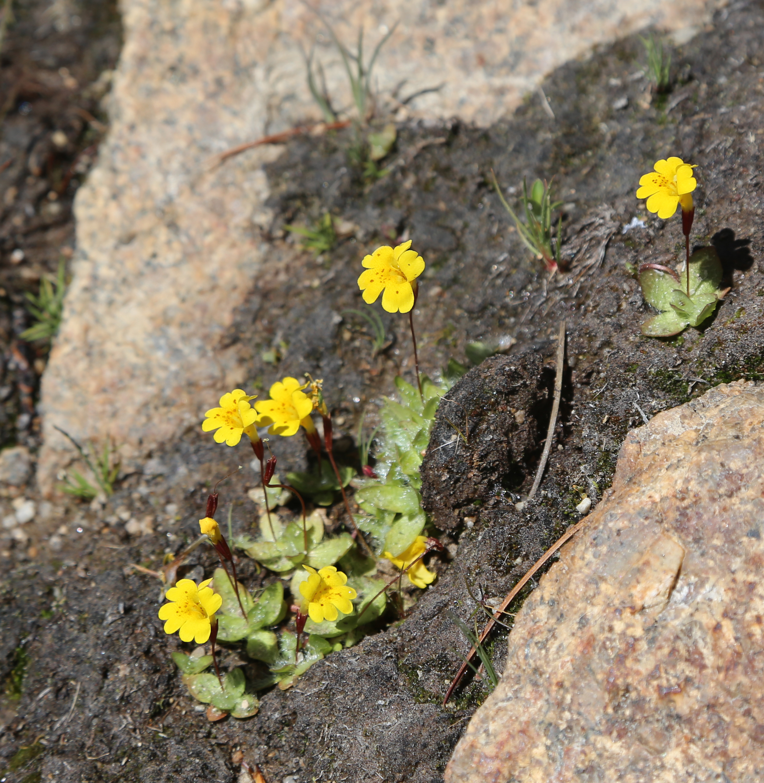 Primrose monkeyflower (Mimulus primuloides), group of plants in moist crevice between rocks, showing spotted yellow flowers and fuzzy pale-green leaf rosettes. At 11,100 ft (3,400 m) along Mono Pass trail below Ruby Lake, John Muir Wilderness, Sierra Nevada USA.